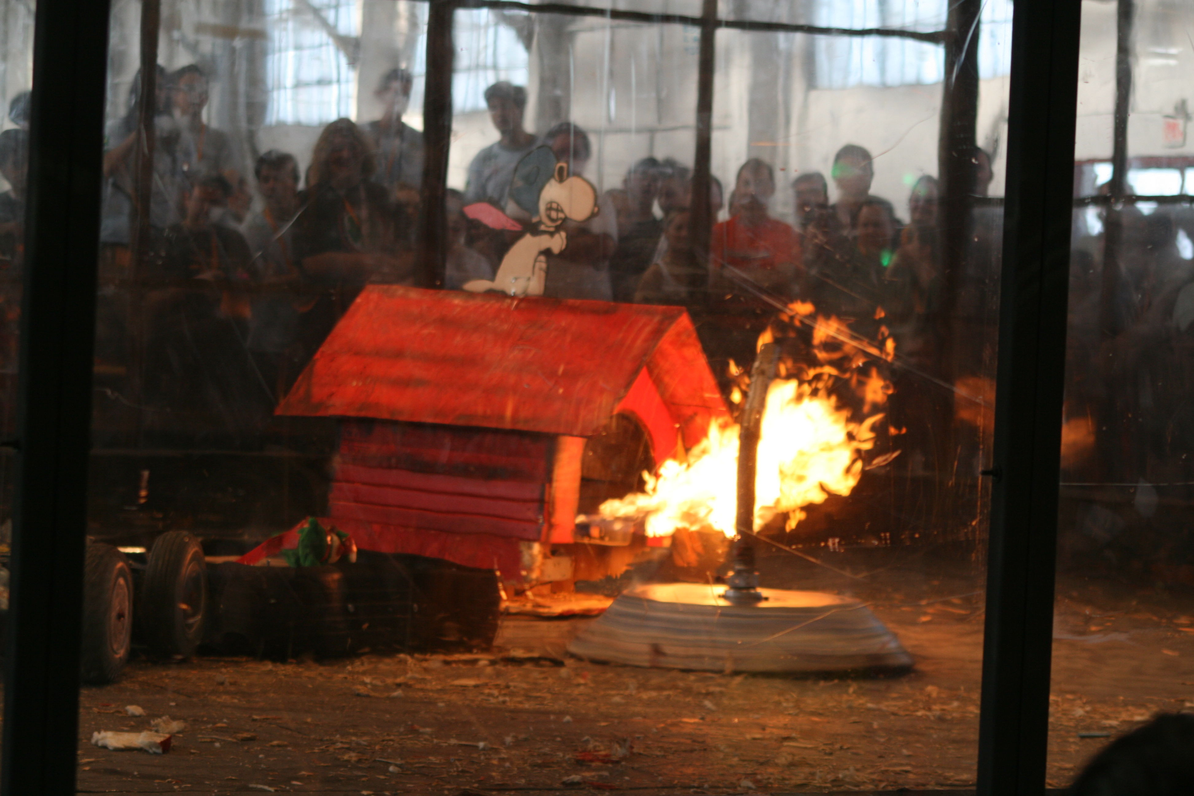 Robot combat involving a flame-enabled robot (left) and a "shredder" robot (right).